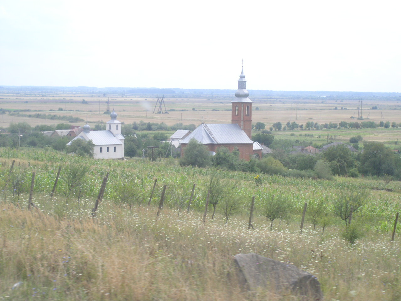 View from Uzhhorod-Rakhiv road, Ukraine.